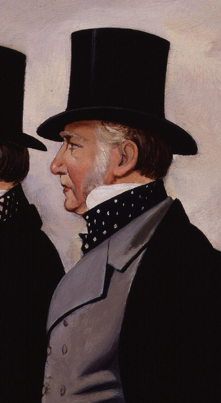 Artist floruit 1870, presumed dead by 1939.